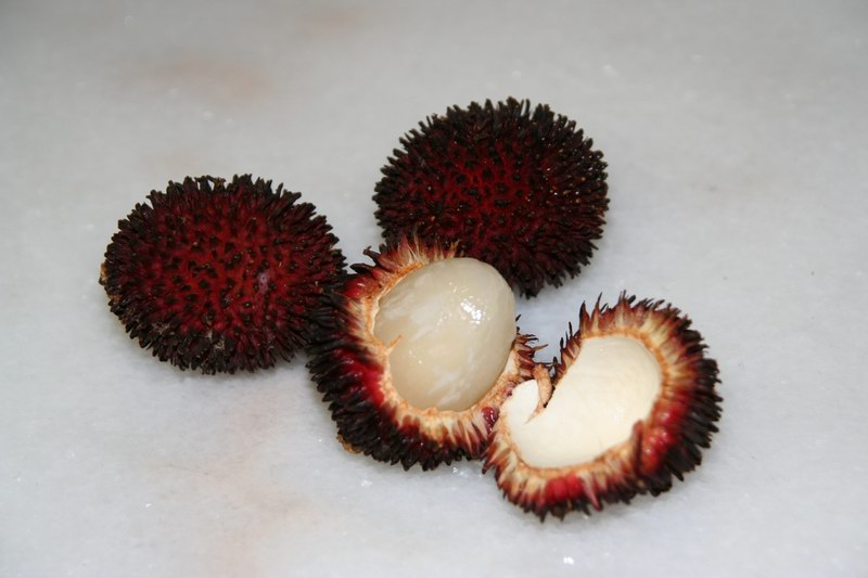 A trio of pulasan fruits, one of which has been opened to reveal the sweet edible flesh. Purchased in Singapore, July 2007.